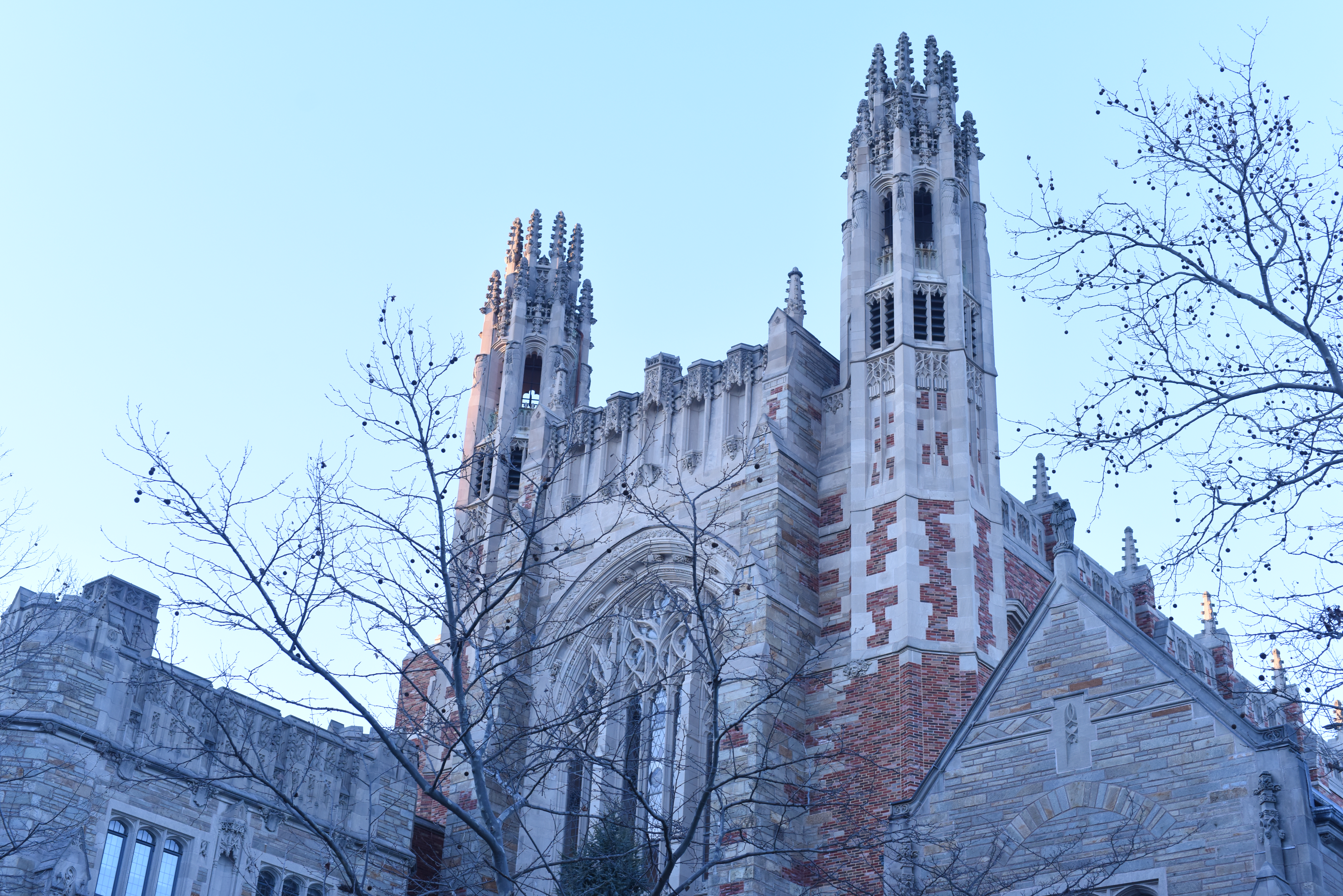 Yale University was formally known the Collegiate College.